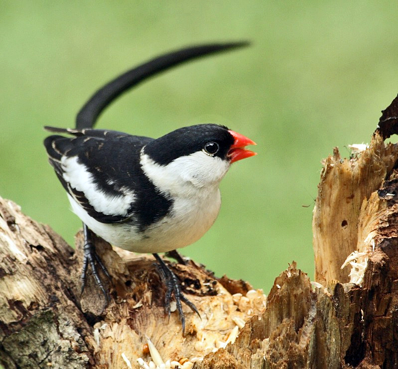 Pin-tailed Whydah Vidua macroura, male. Kingston park, Pietermaritzburg, South Africa